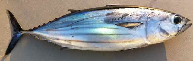 Pic of Skipjack caught off of Okinawa, JP shoreline.